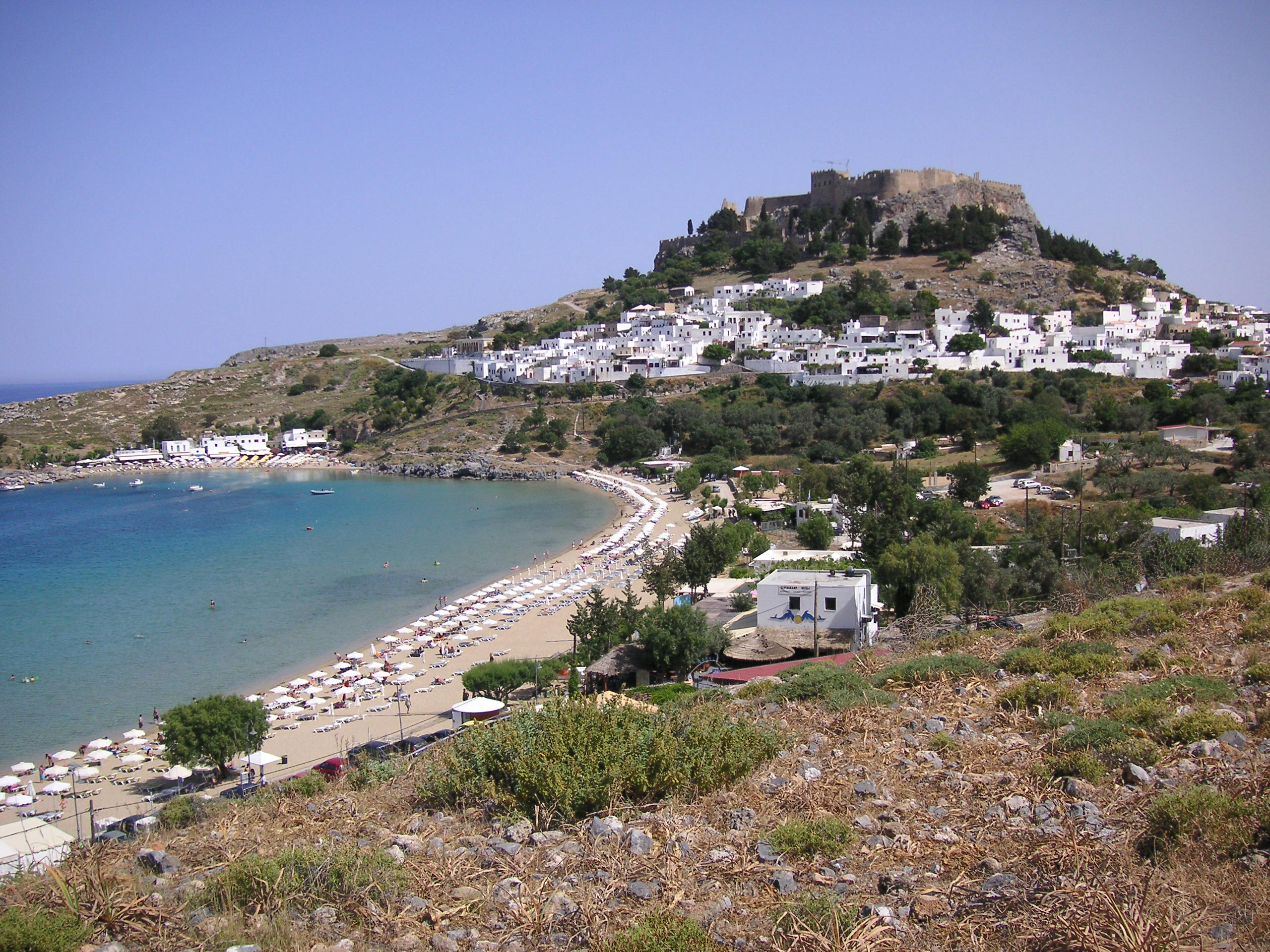 View to Lindos and castle, Rhodes